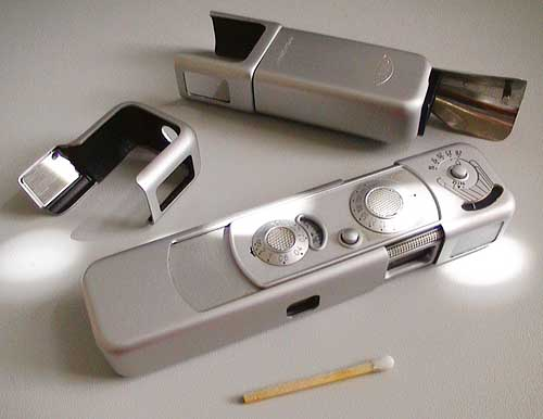 Minox B sub-miniature camera with flash and right-angle viewfinder, film format 8 × 11 mm